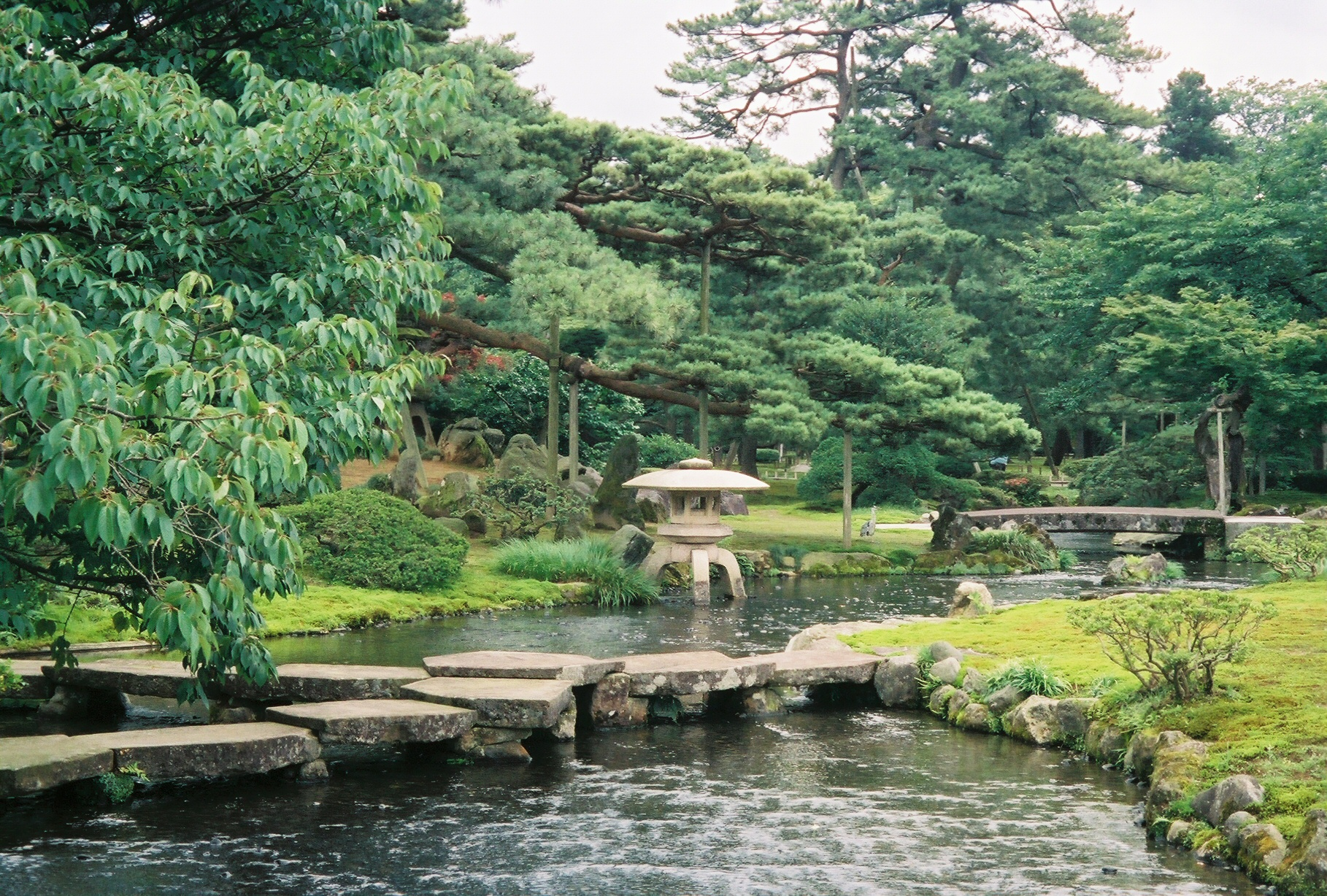 Kenroku-en Photo taken by me in July, 2006